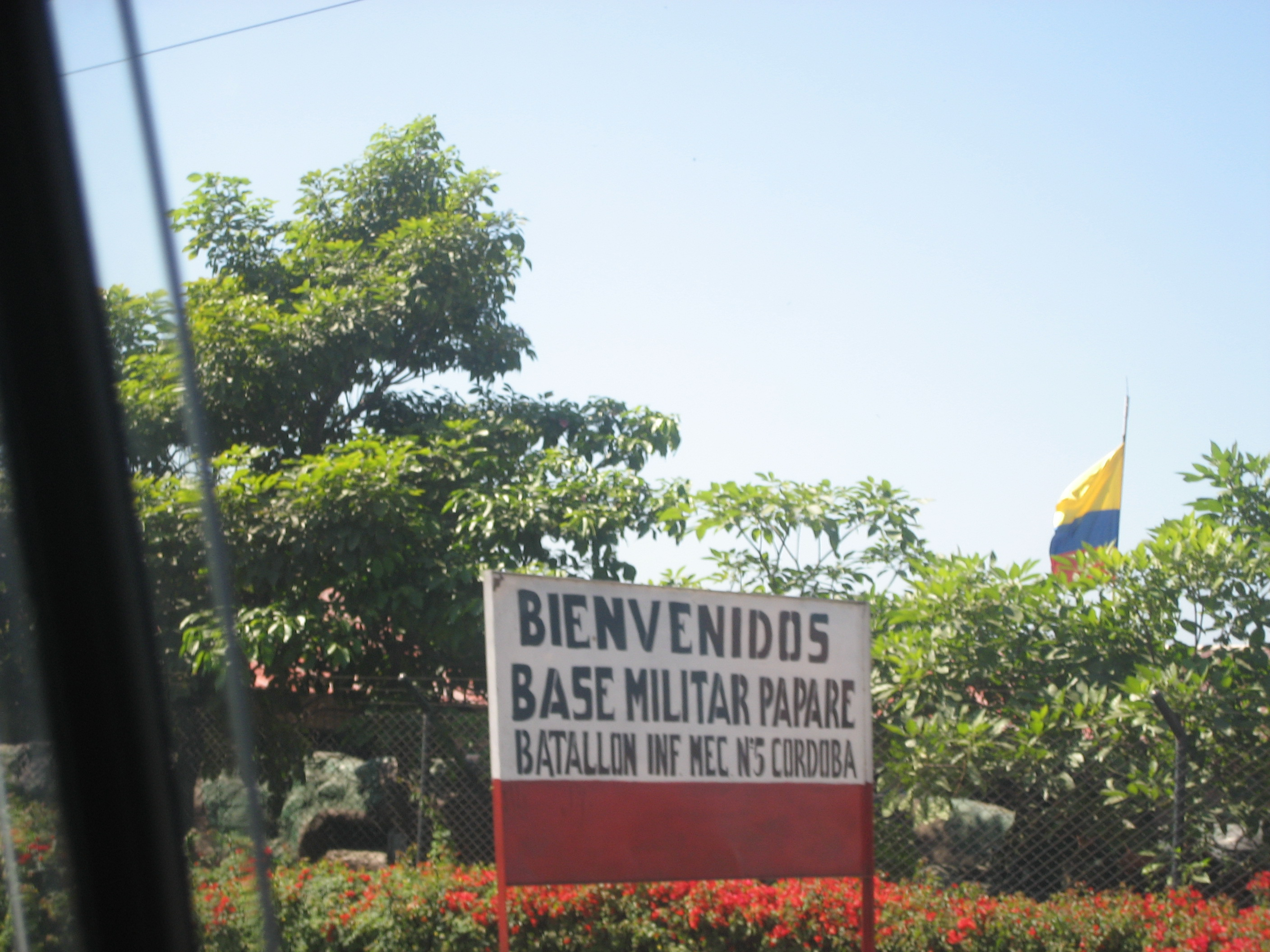 Image of Colombian army base entrance sign, Santa Marta.